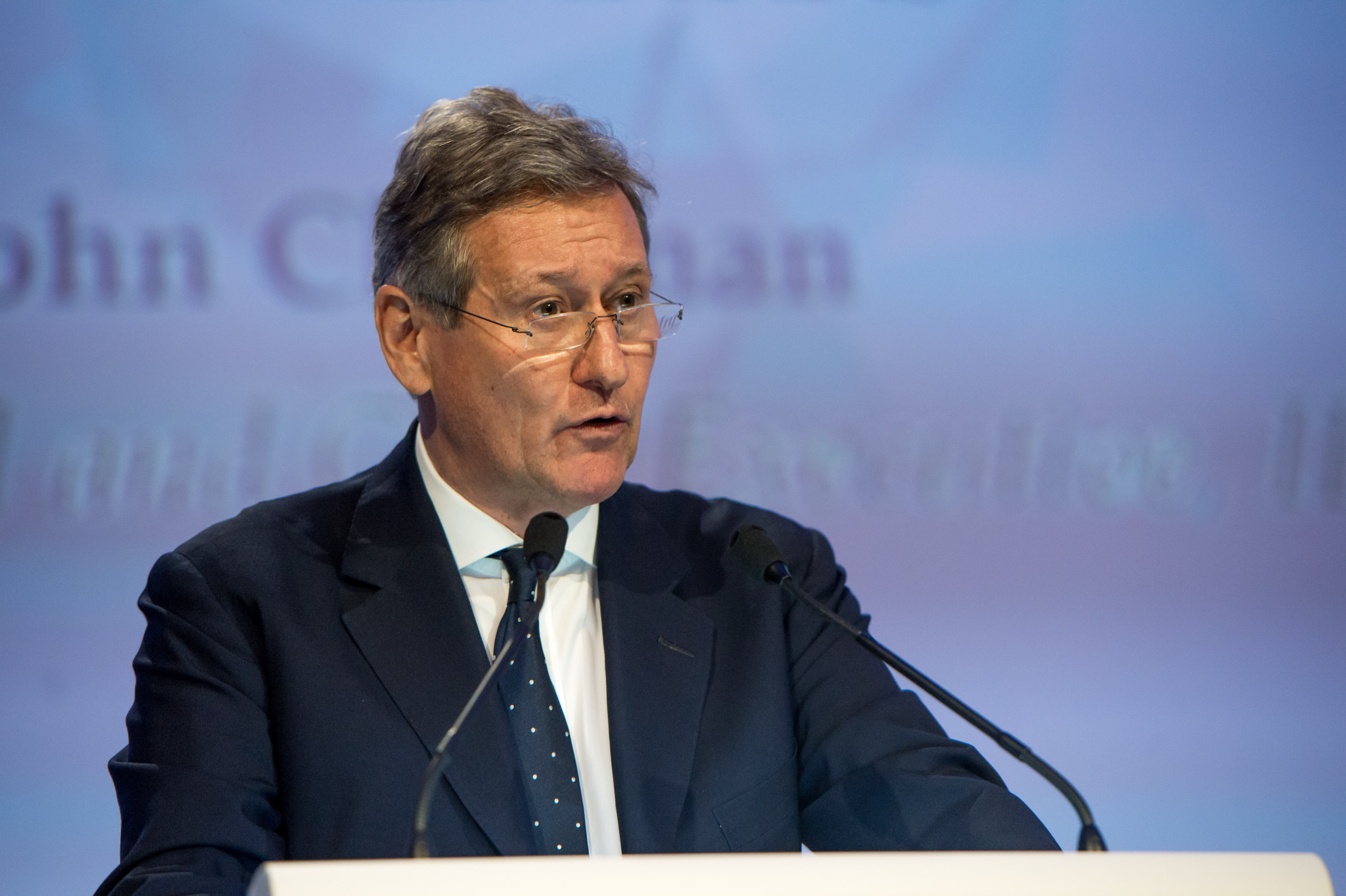 Dr. John Chipman, the director-general and chief executive of the International Institute for Strategic Studies speaks during the IISS 16th Asia Security Summit in Singapore on June 2, 2017. (DOD photo by U.S. Air Force Staff Sgt. Jette Carr)